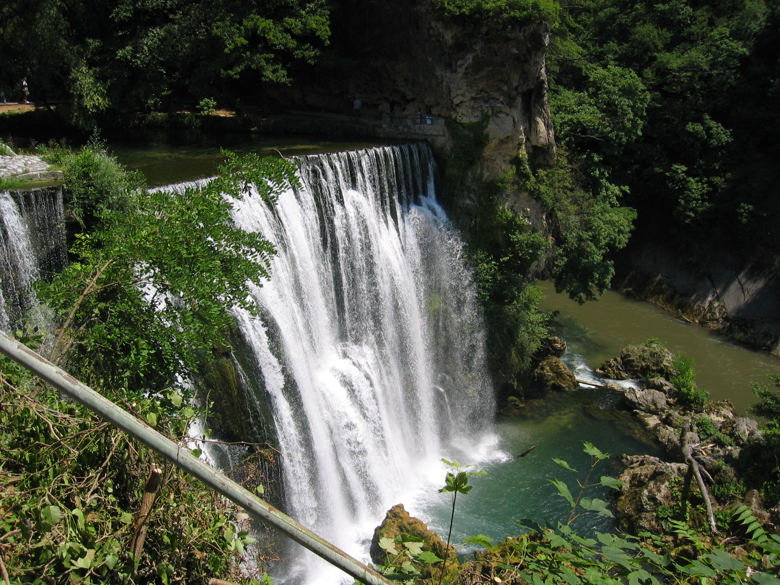 i (Foant) am the author of this image and i hereby release it as gfdl. 17:21, 3 October 2005 Foant 1600x1200 (884616 bytes) (i (Foant) am the author of this image and i hereby release it as gfdl. )